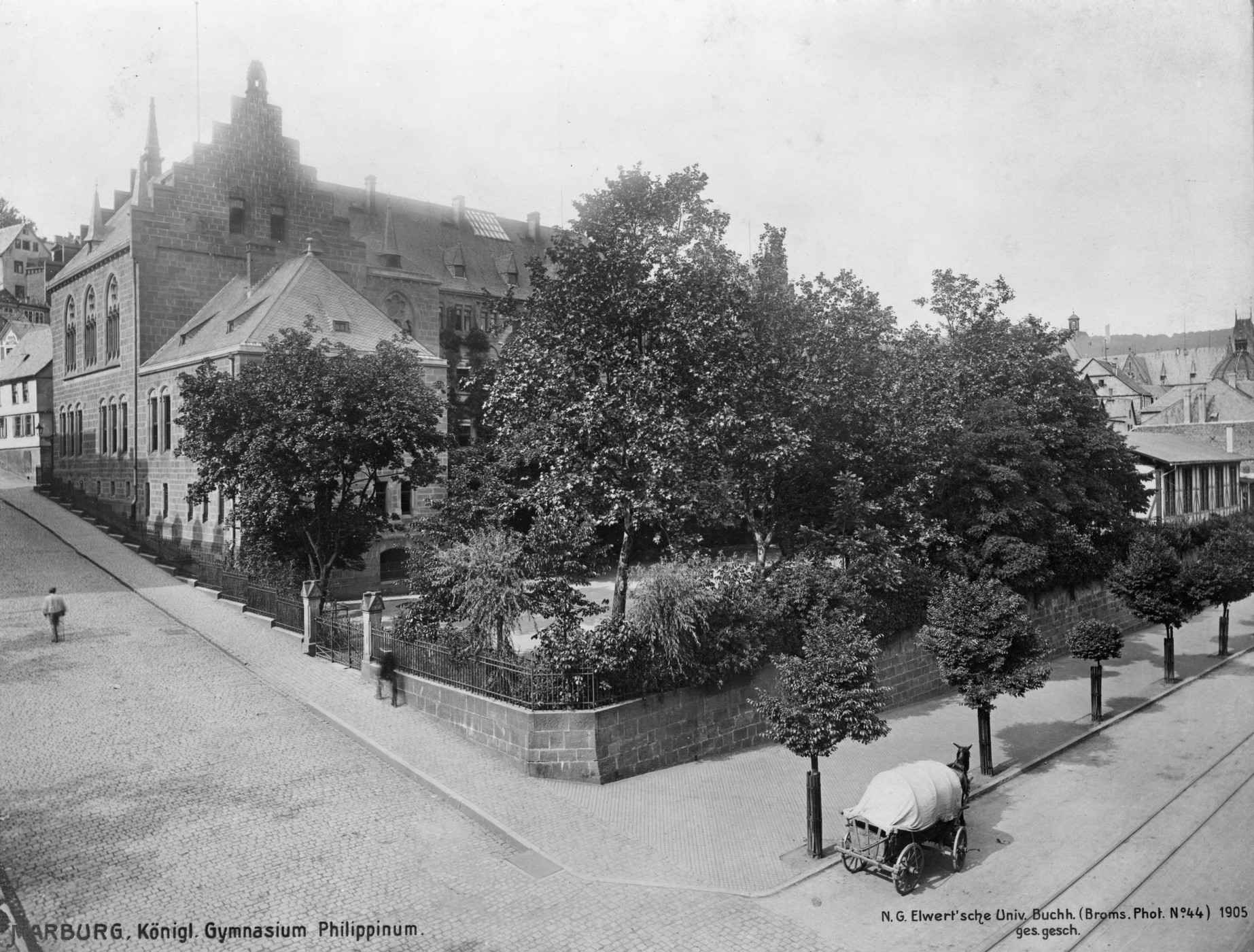 The royal Prussian Gymnasium Philippinum (finished 1868, demolished in 1973 for the Schloßberg-Centers with C&A) in the Untergasse of Marburg seen from the corner Universitätsstraße/ Gutenbergstraße. Postcard.